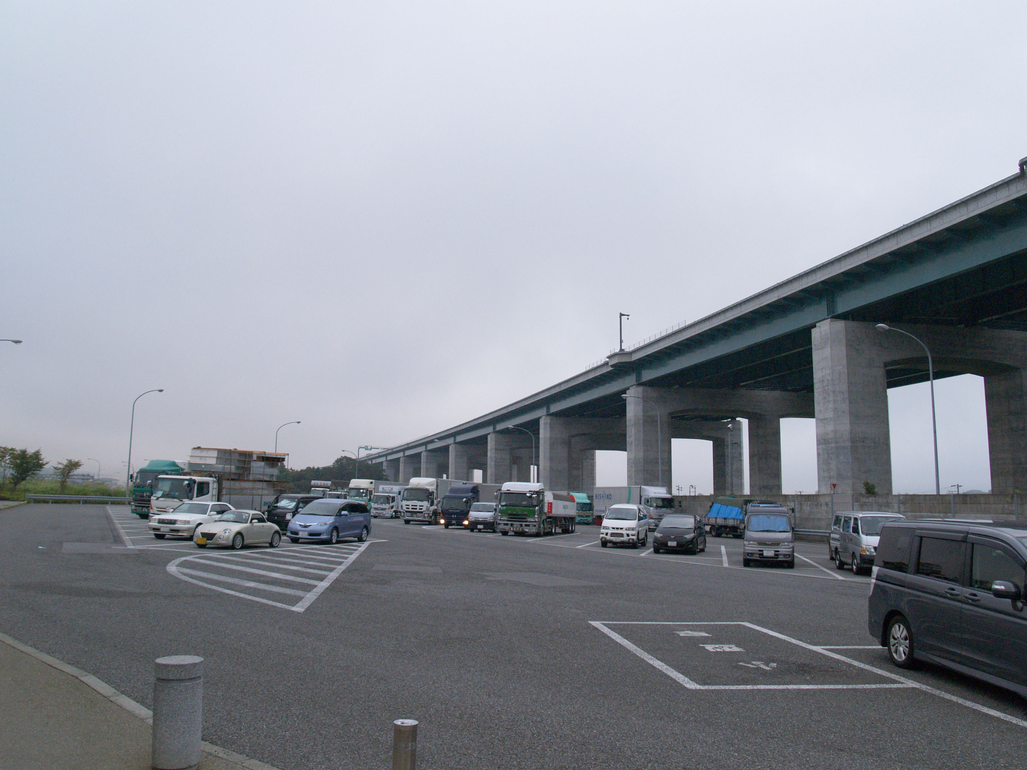 Shin-Tomei Expwy view from Komakado Parking Area, Tomei Expwy